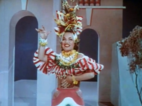 Carmen Miranda in Week-End in Havana - trailer (cropped screenshot)